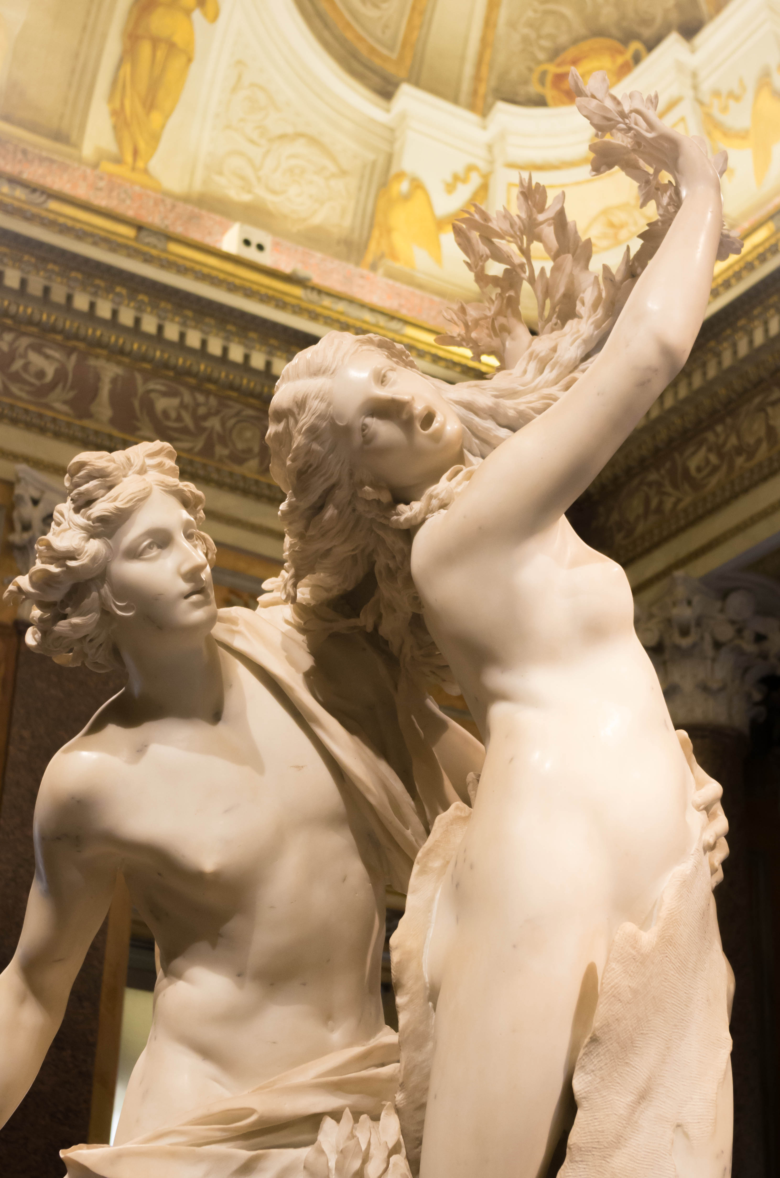 Apollo by Bernini